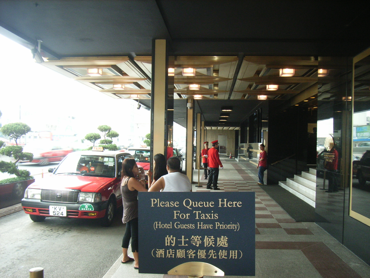 Mandarin Oriental Hotel, Central, Hong Kong (by KennethTom).